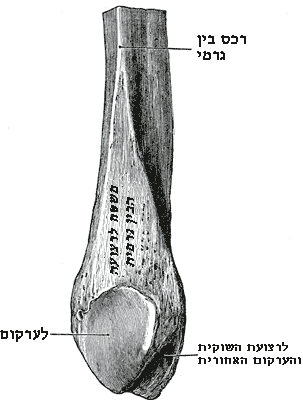 Lower extremity of right fibula. Medial aspect.